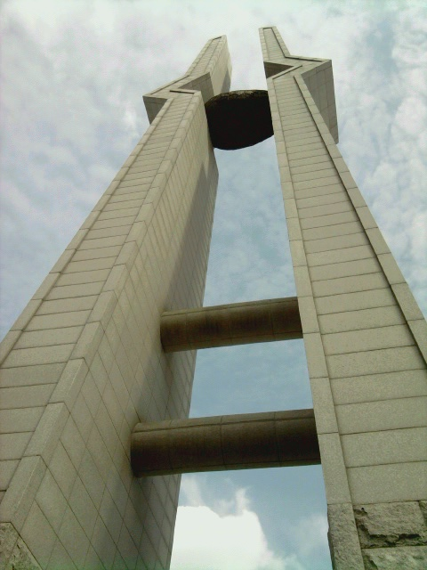 Memorial Tower in May 18th National Cemetery